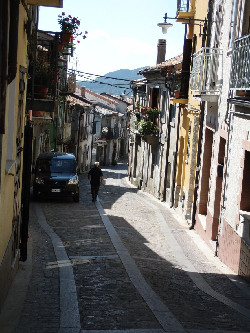 Vittorio Emanuele Street